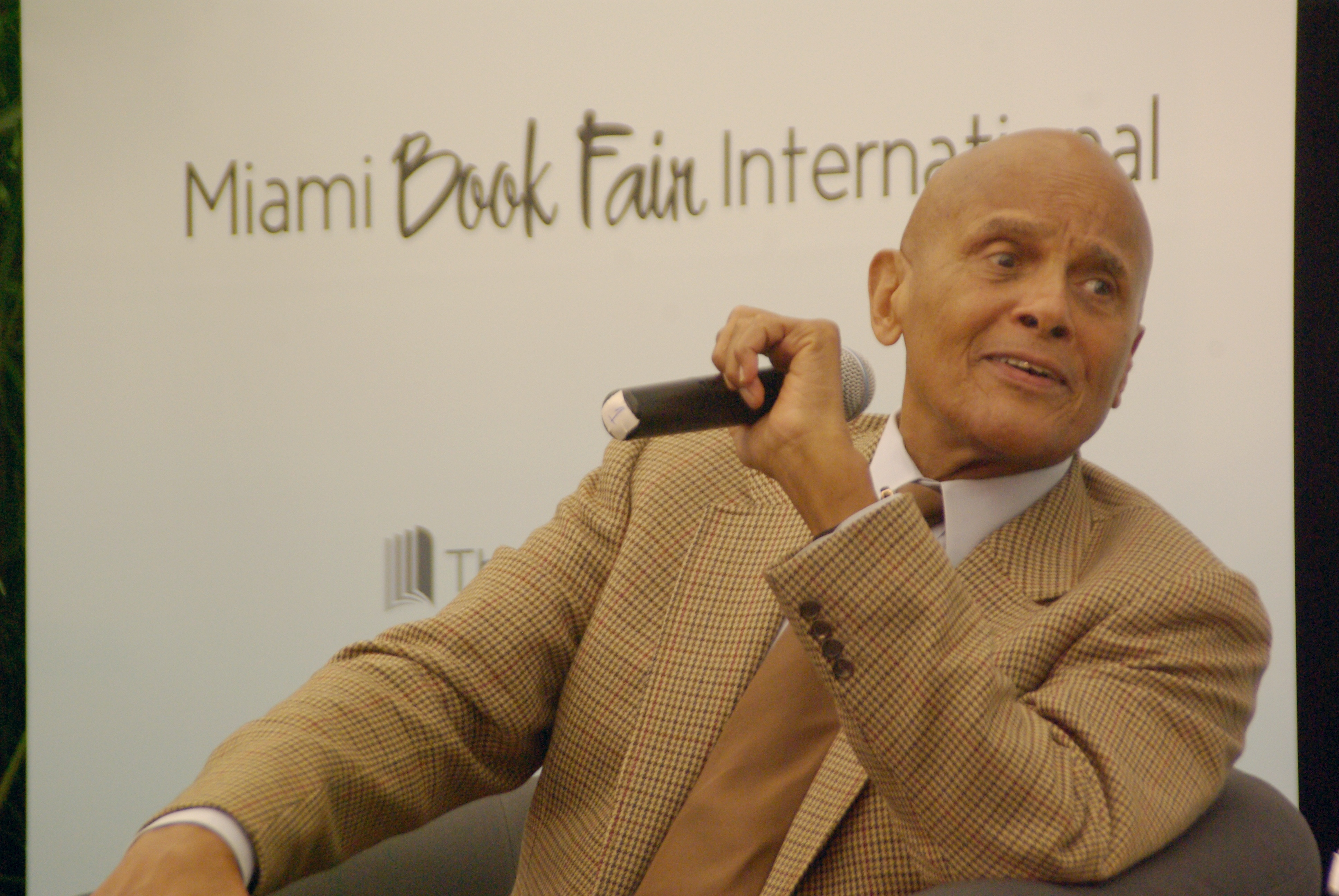 American singer Harry Belafonte at the Miami Book Fair International 2011